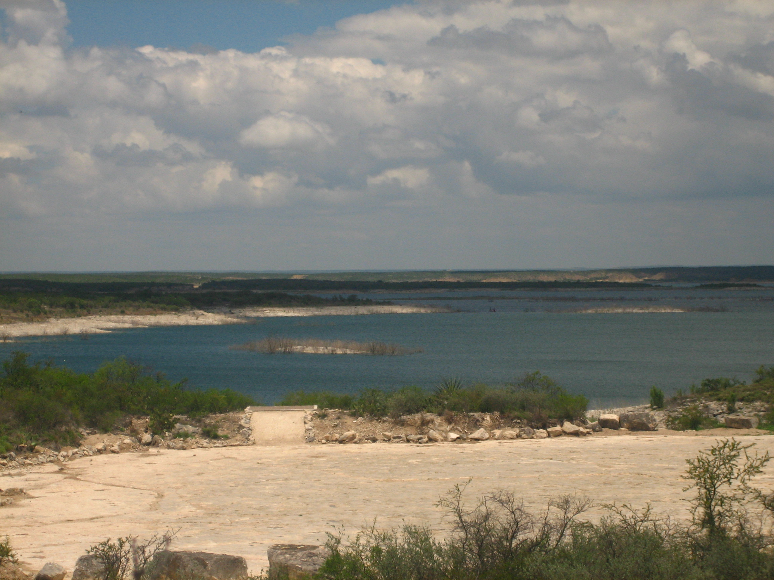 I took photo on July 9, 2008.Billy Hathorn (talk) 04:24, 27 September 2008 (UTC)